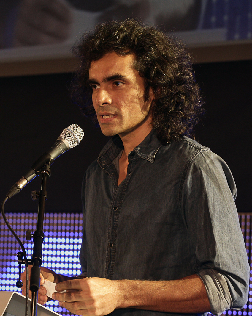 Greetings from Bollywood by Imtiaz Ali, Film Director and Writer at the Horasis Global India Business Meeting, Antwerp, 24-25 June